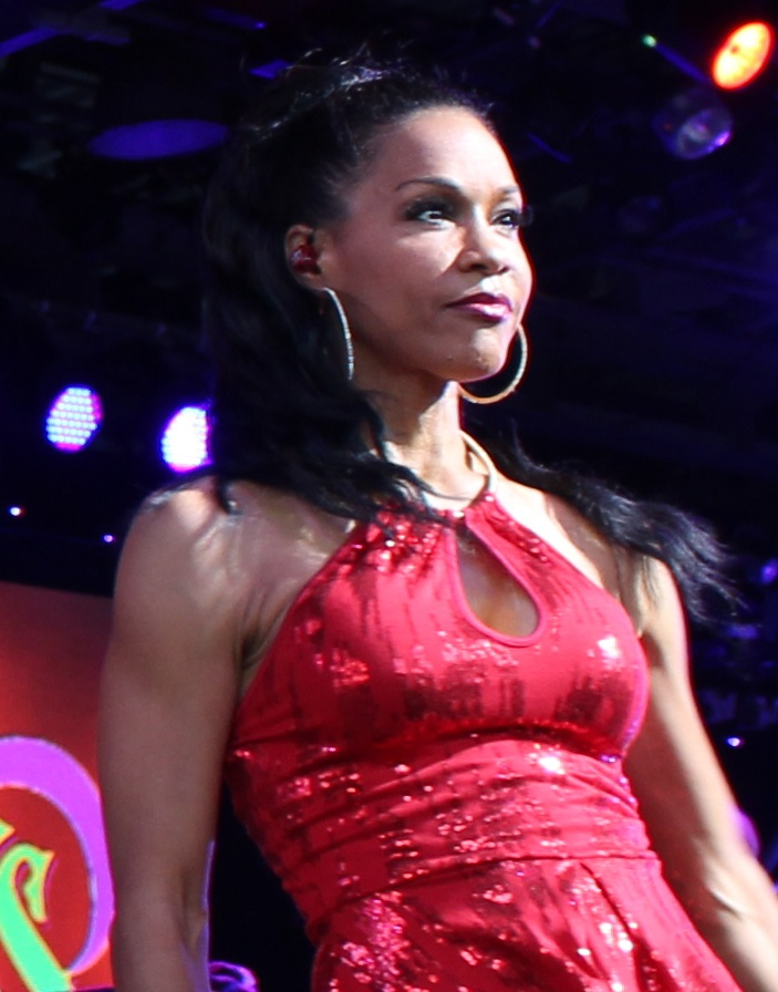 Cindy Herron of R&B group En Vogue during a performance in march 2015